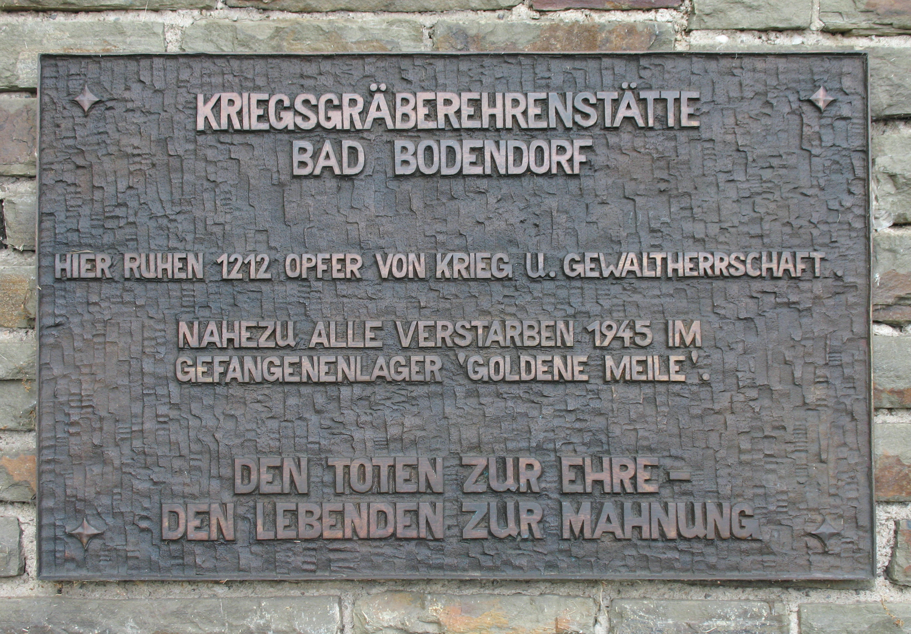 Bad Bodendorf War Cemetery in Sinzig in Rhineland-Palatinate, Germany